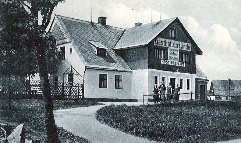 Cinovec (dt. Böhmisch Zinnwald), Gasthaus zur Linde, Inh. Lehnert